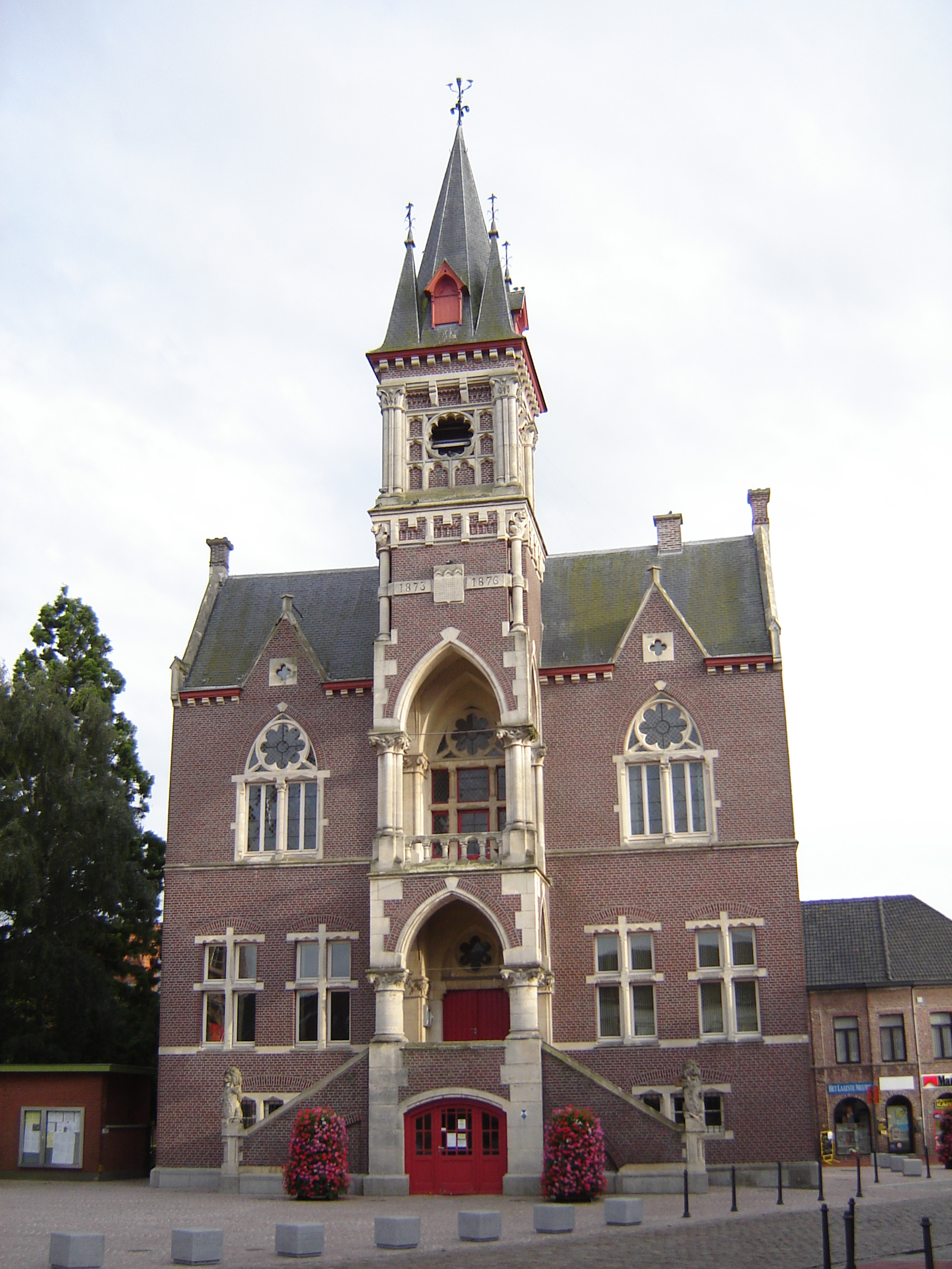 Town hall of Ruiselede. Ruiselede, West Flanders, Belgium.